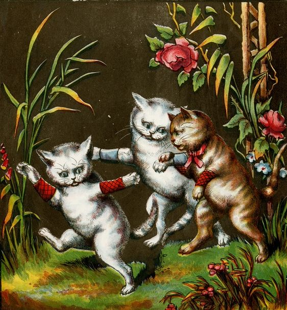 (Removed after reusableart request.)